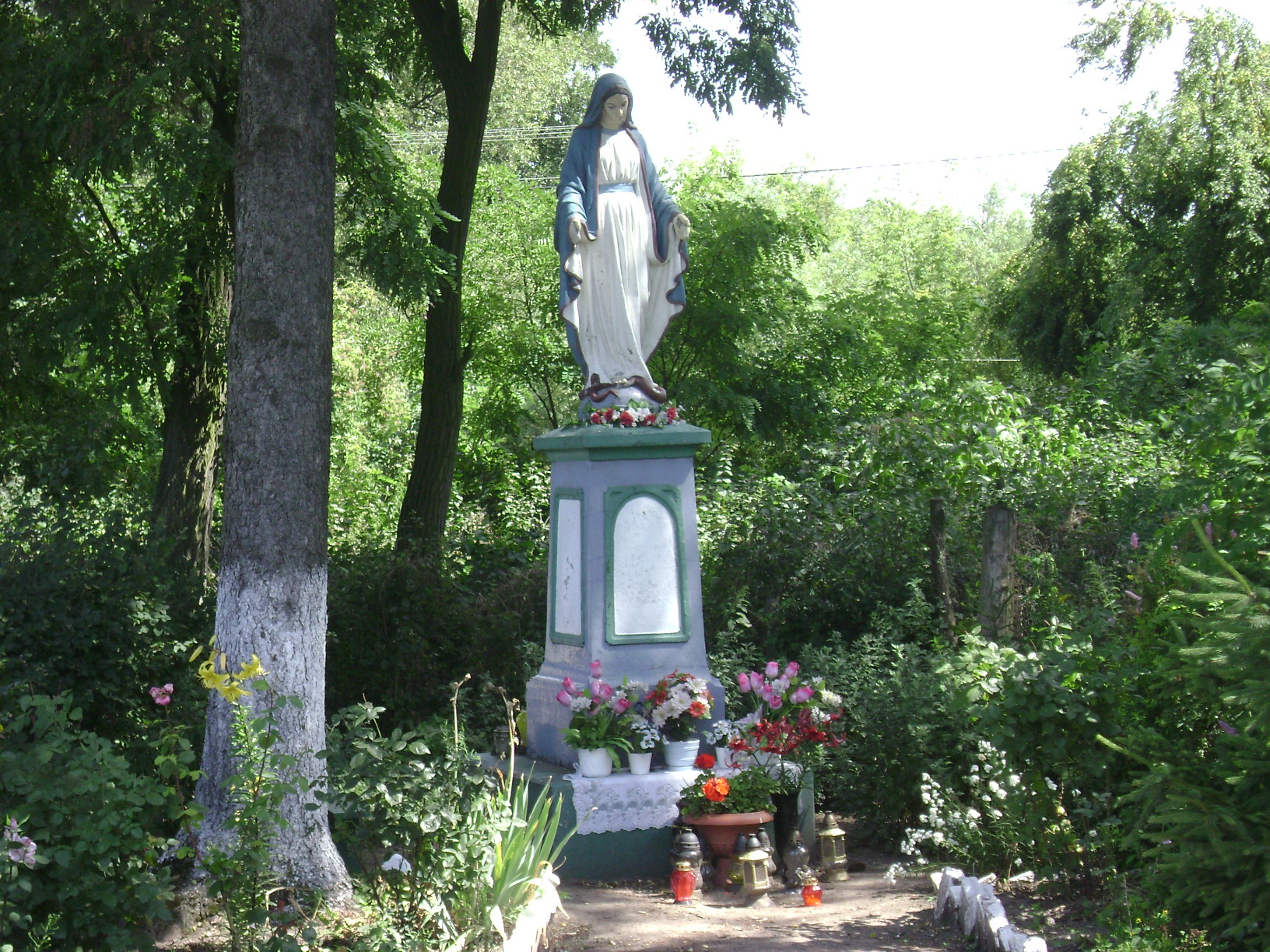 Statue of Mary near dwór of Pląskowski family in Głodowo, Lipno County. It has been founded by Pląskowski family in 1918.